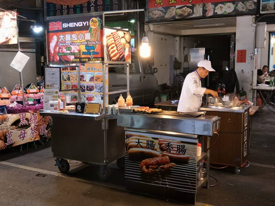 大腸 means Taiwanese sticky rice sausage 小腸 means Taiwanese sausage